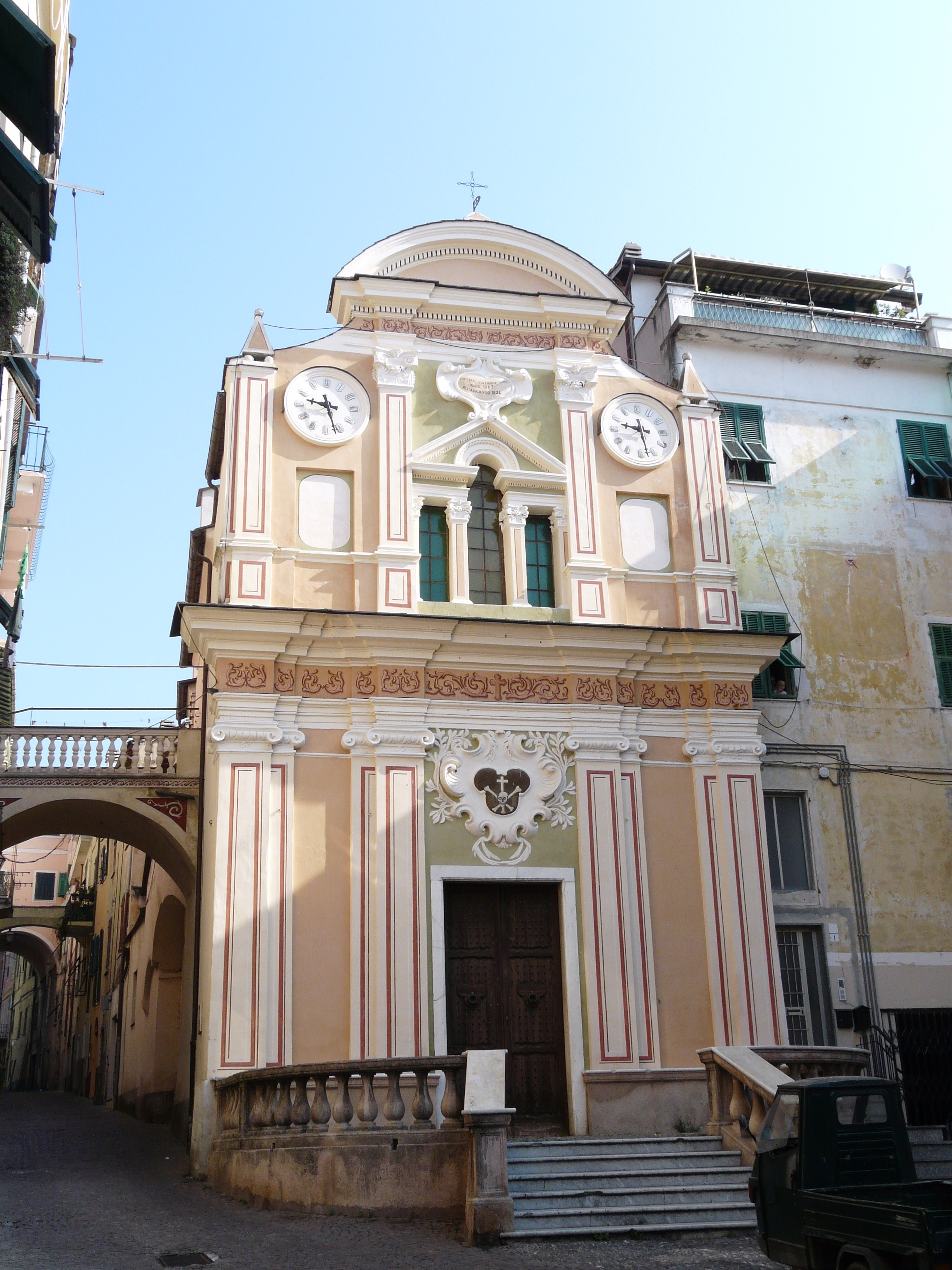 The Oratorio del Suffragio o dei Neri in Camporosso, Liguria, Italy.